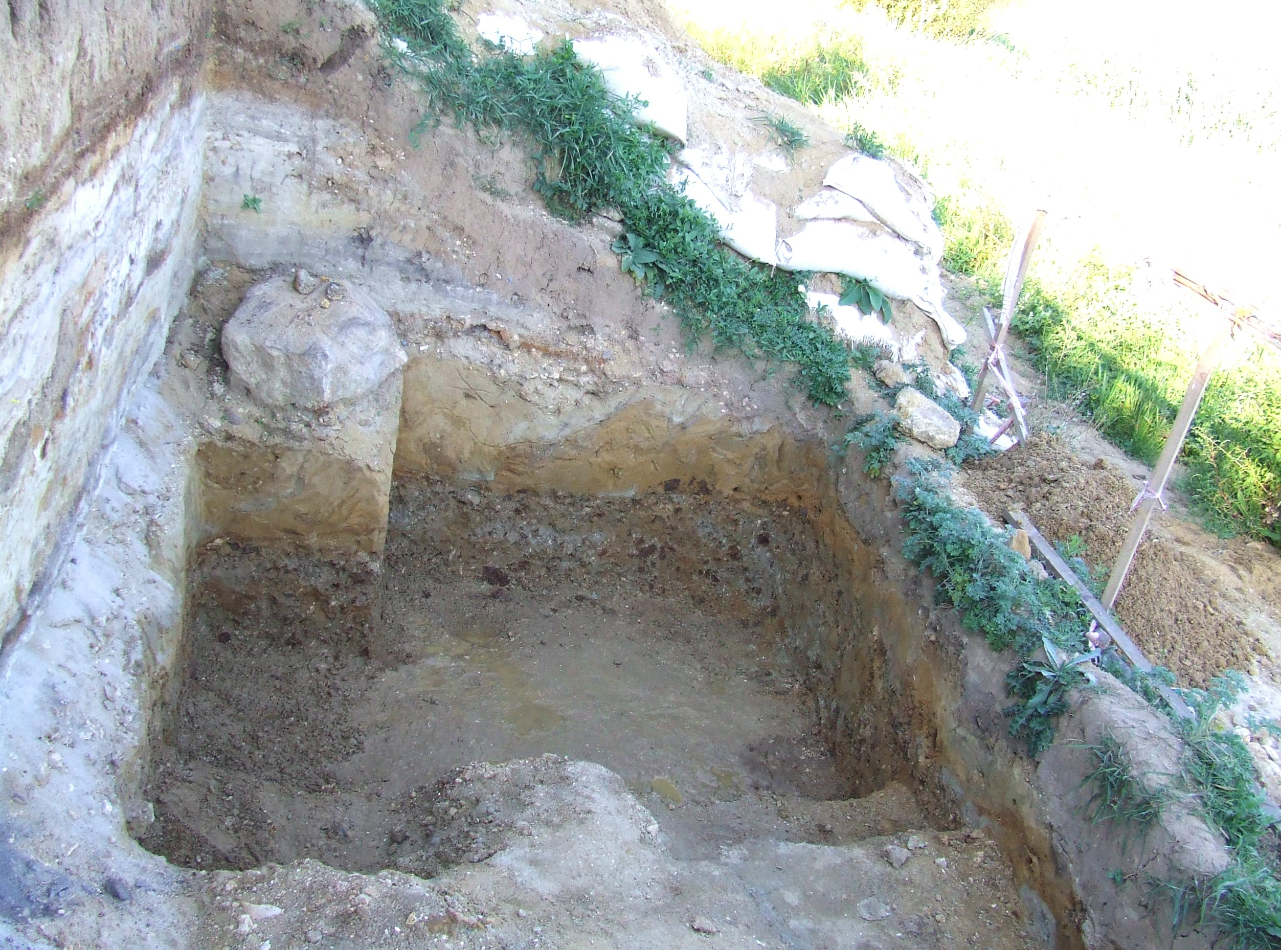 Excavations of part of the site of Lower Paleolithic settlement in the outskirts of town of Medzhybizh in Khmelnytskiy region in Ukraine which were carried out by archeologists Vadym Stepanchuk and Victor Vetrov in August of year of 2016. Medzhybizh is the farthest in Eastern Europe location where the presence of a human of Paleolithic age was securely fixed by the scientists (more than 400 000 years B.C.). Vadym Stepanchuk is the Doctor of History Science, professor, paleontologist, key research fellow of Stone Age Department of the Institute of Archeology of National Academy of Sciences of Ukraine. Victor Vetrov is the historian and archeologist specialized in paleontology, senior research fellow working in State historical and cultural preserve “Medzhybizh”